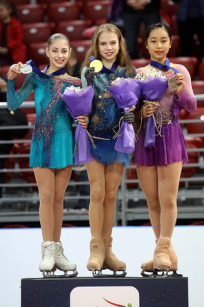 Photos – Junior World Championships 2018 – Ladies (Medalists)